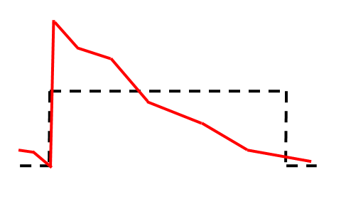 The near field phase profile (red) for an attenuated phase shift mask used with a partially transmitting EUV absorber does not match the ideal (dotted) profile. Reference: A. Erdmann et al., Proc. SPIE 10583, 1058312 (2018).